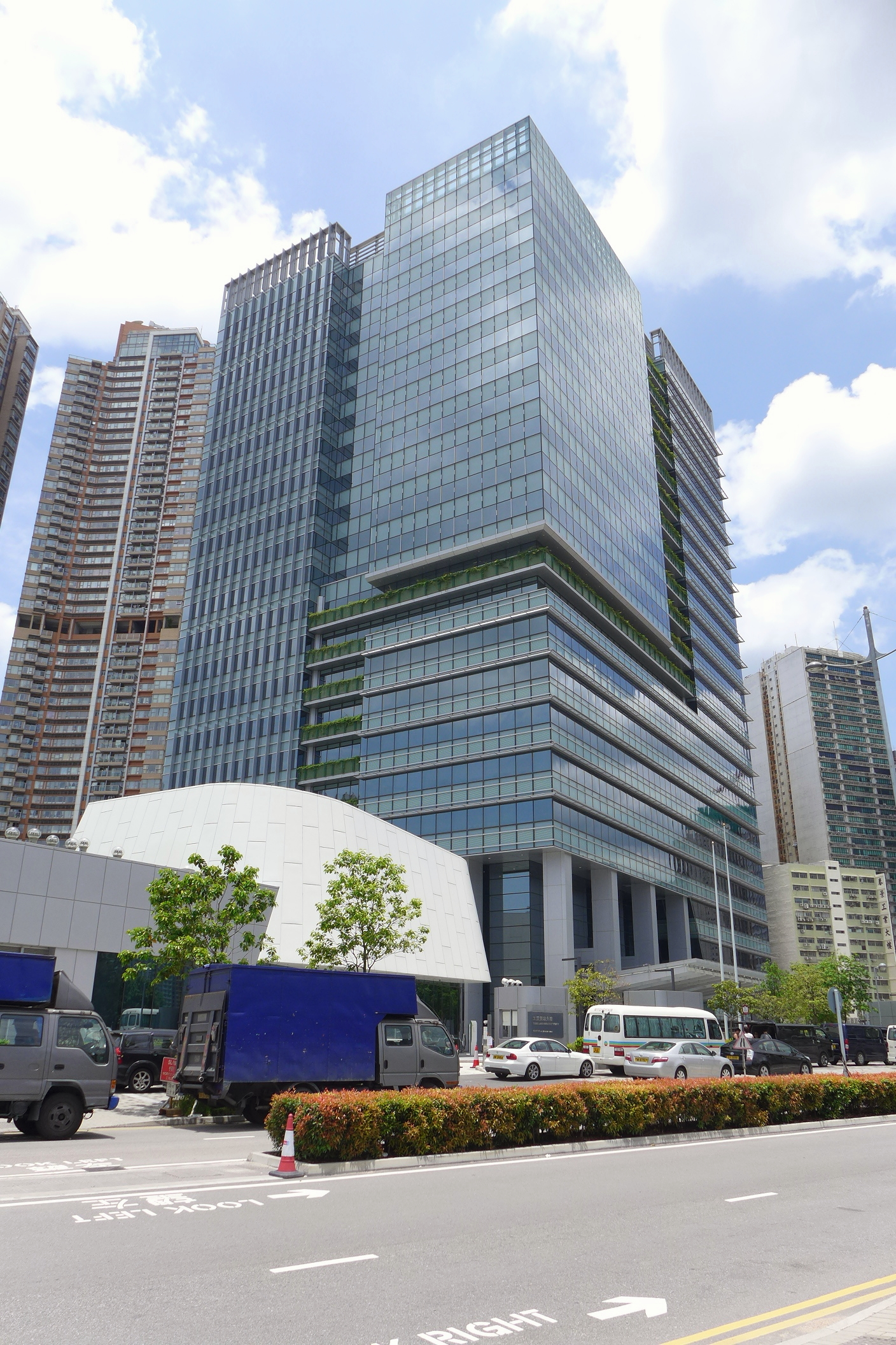 Kai Tak Government Offices